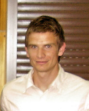 soccer player from Polish football club Lech Poznań